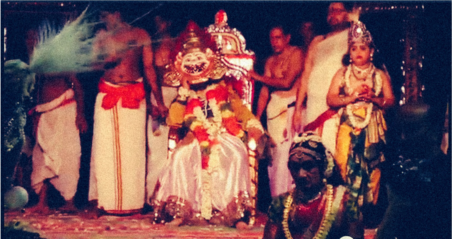 It is picture of bhagavatha mela which is famous in tamilnadu